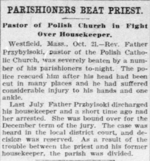 News article of Polish parishioners battling with a priest